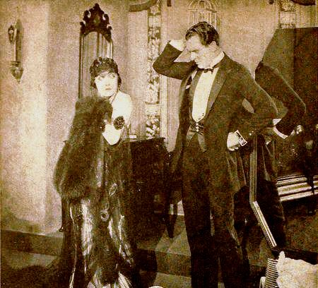 Still from the American film Why Change Your Wife? (1920) with Thomas Meighan and Gloria Swanson, from page 74 of the July 1920 Motion Picture Magazine.